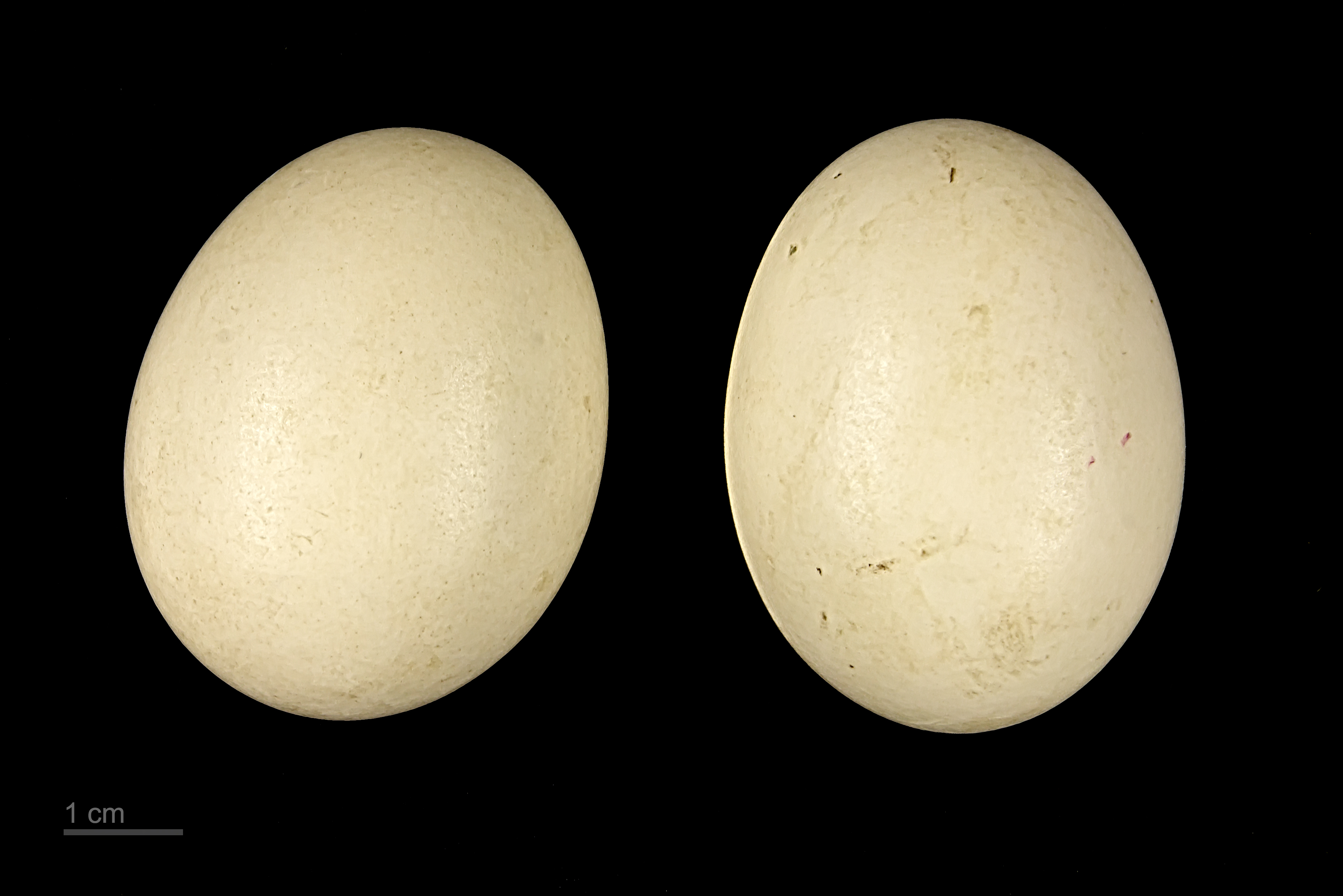 Eggs of red shoveler Two specimens of the same spawn ; collection of Jacques Perrin de Brichambaut.